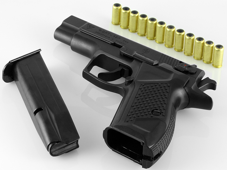 The pistol «Fort-12R» is a self-defense weapon for firing cartridges with elastic bullet that have trauma effect.